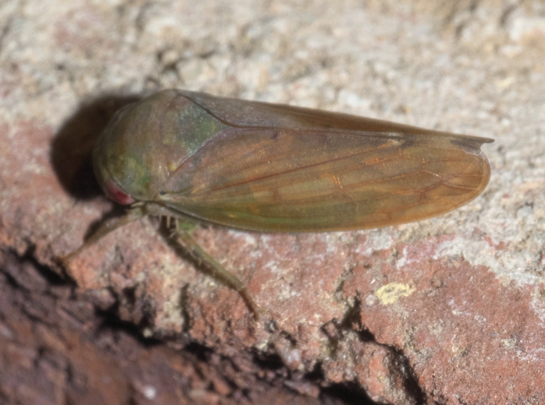 Polana, Family: Leafhoppers, ID Confidence: 98